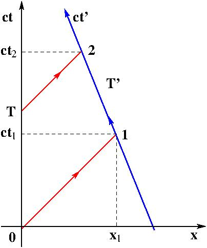 Two light pulses is emitted in Minkowski-space to calculate time dilation.